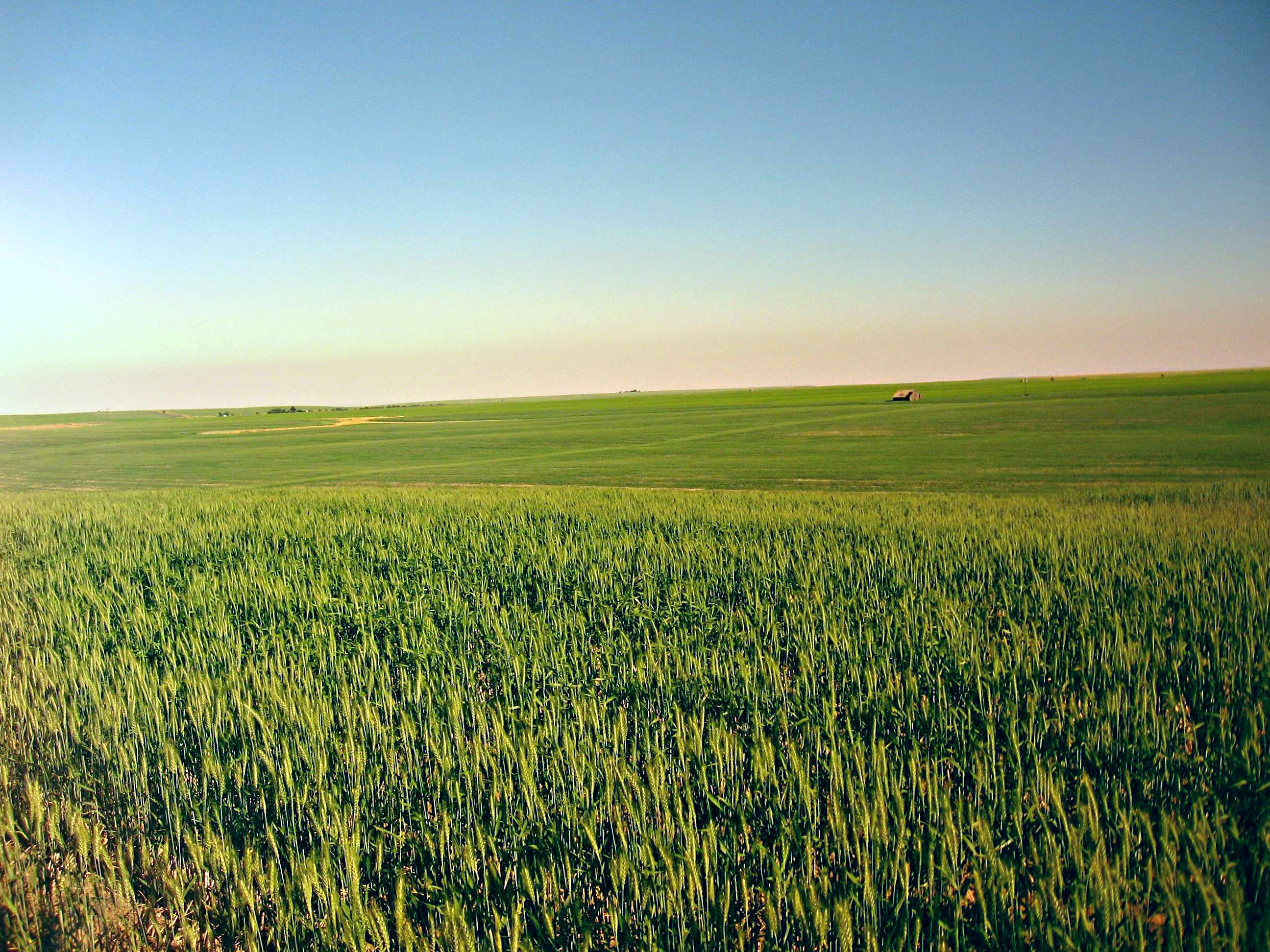 Klickitat County vast farmlands.